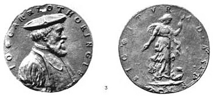 Renaissance Medal of Cardinal Jean de Lorraine